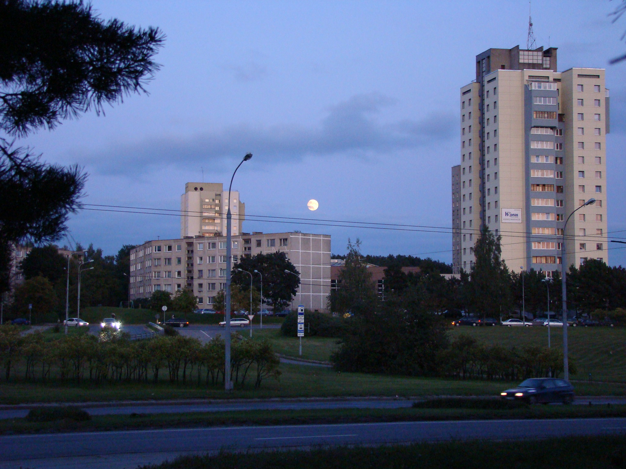 Evening in Lazdynai, Vilnius